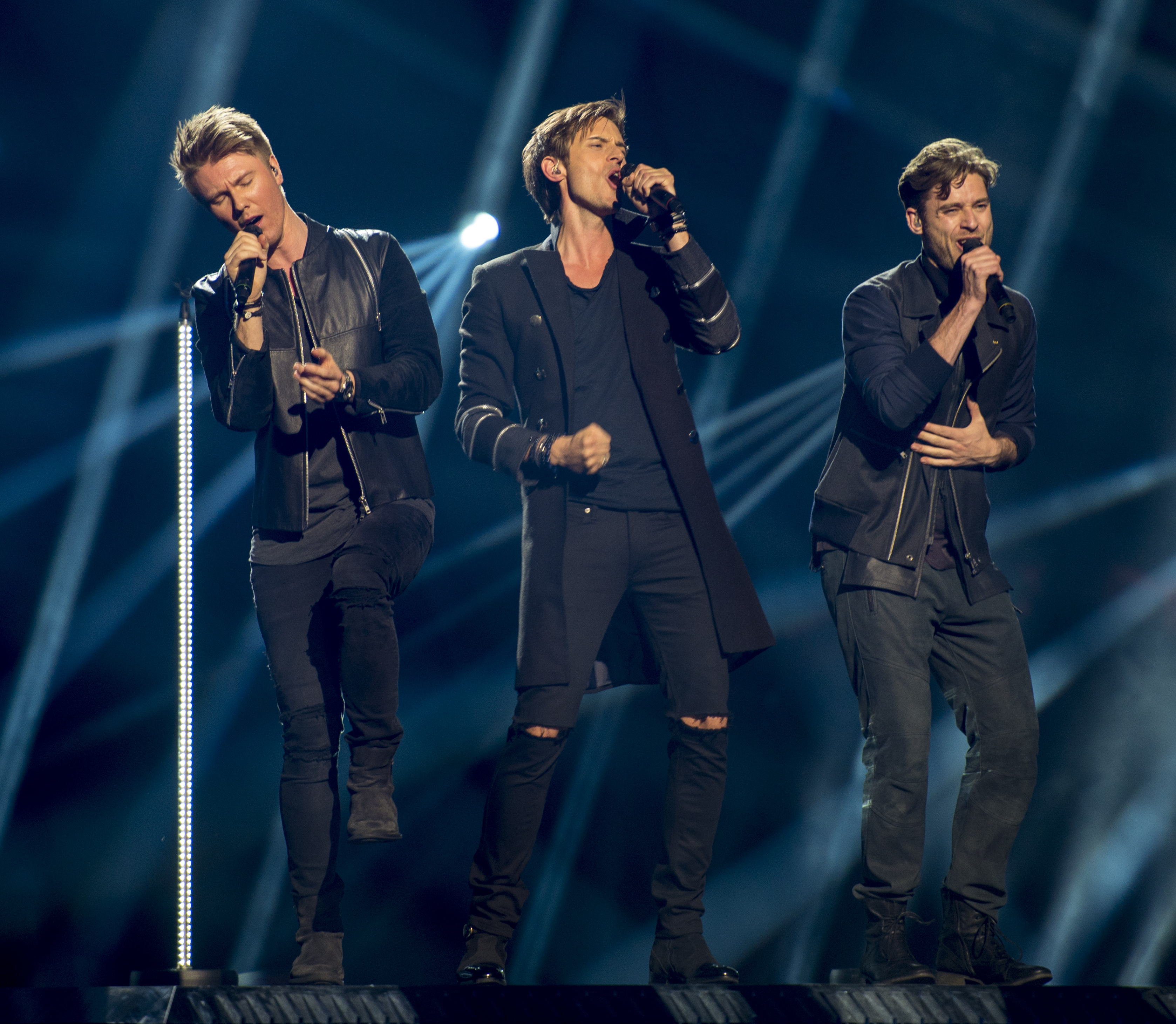 Lighthouse X representing Denmark with the song "Soldiers of Love" during a rehearsal before the second semi final of the Eurovision Song Contest 2016 in Stockholm. (Help translate this text)